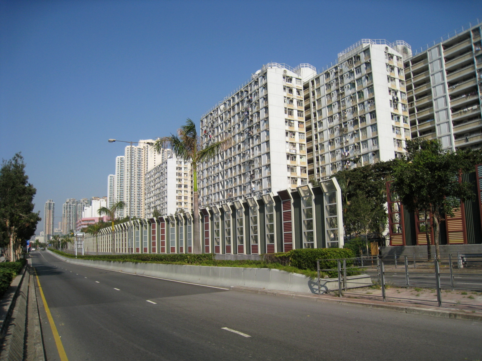 Sham Mong Road Near Nam Cheong Estate 深旺道近南昌邨位置